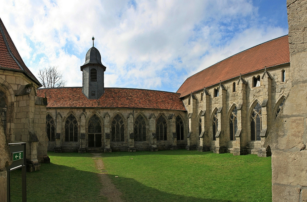 Walkenried Abbey, once one of the most celebrated Cistercian abbeys of Germany, located in the village of Walkenried in the district of Osterode in Lower Saxony.